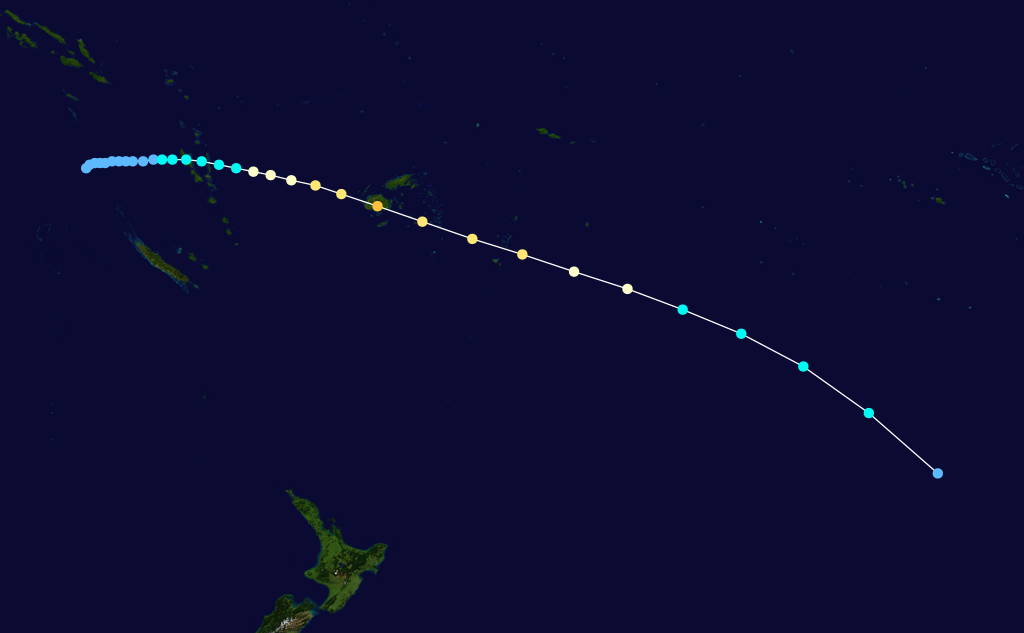 Cyclone Eric (1985) track. Uses the color scheme from the Saffir-Simpson Hurricane Scale.